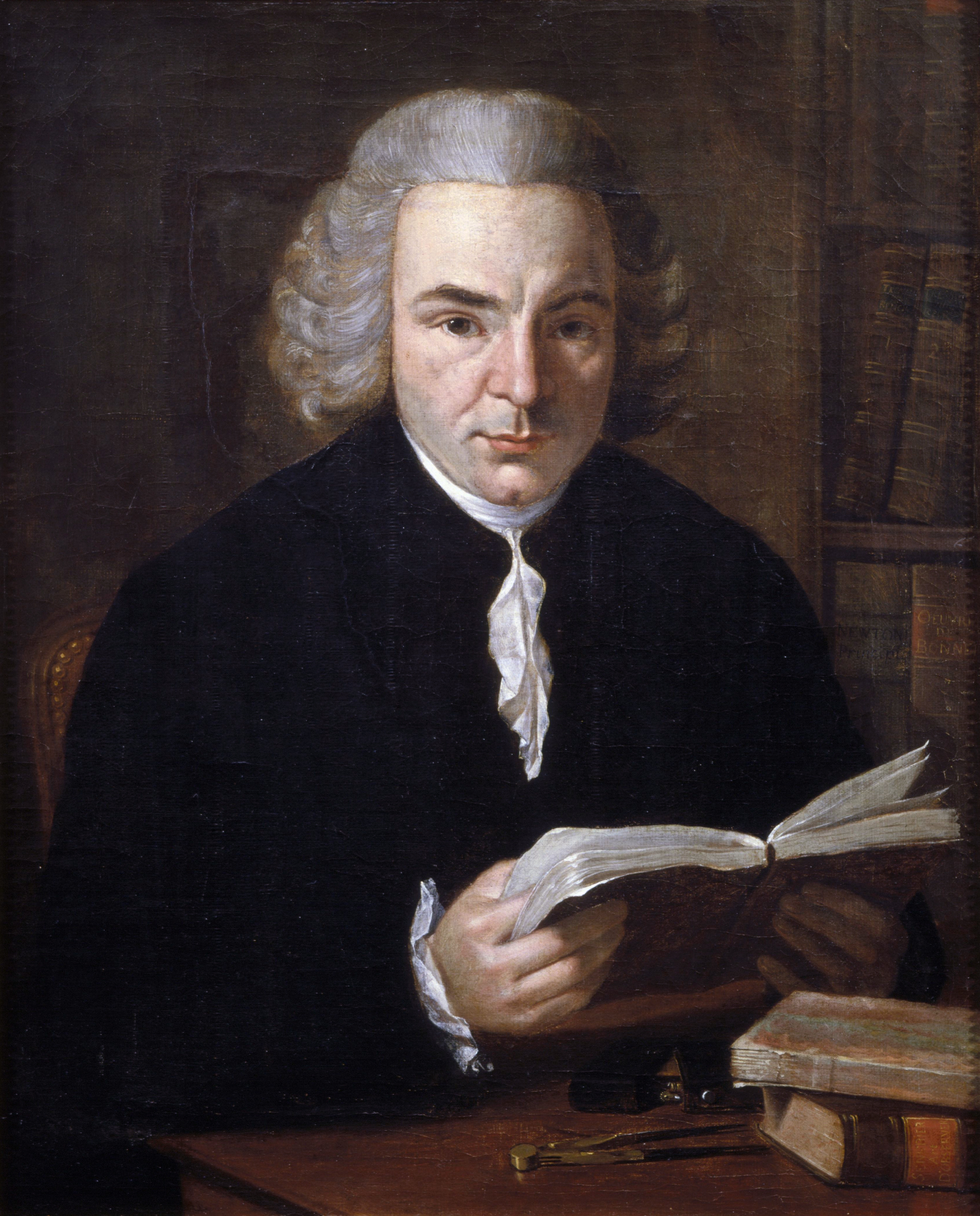 Portrait of Jean Henri van Swinden (1746-1823)